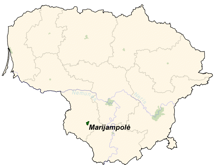 Marijampolė on the map of Lithuania